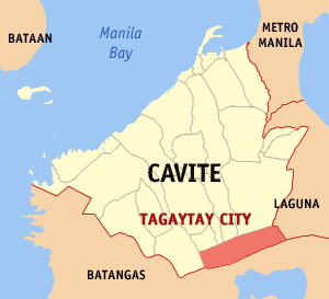 Map of Cavite showing the location of Tagaytay